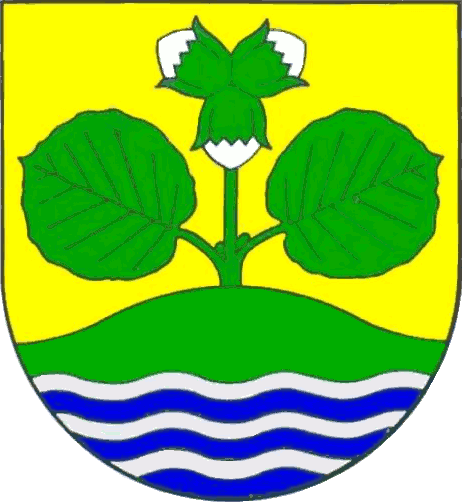 Coat of arms of the municipality Hasselberg in Schleswig-Holstein, Germany.